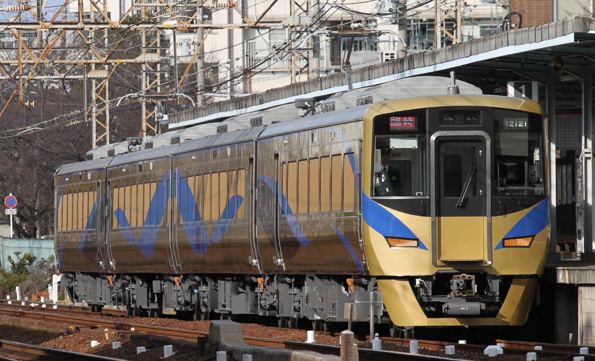 Semboku 12000 series EMU set 12021 on a special preview run for invited passengers